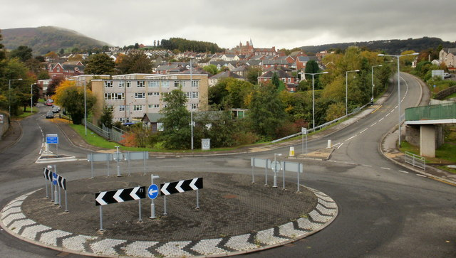 Cwmynyscoy Roundabout, Pontymoel, Pontypool Viewed from the footbridge over Rockhill Road. On the left is Cwmynyscoy Road ; on the upper right is Victoria Road, heading towards Trosnant.